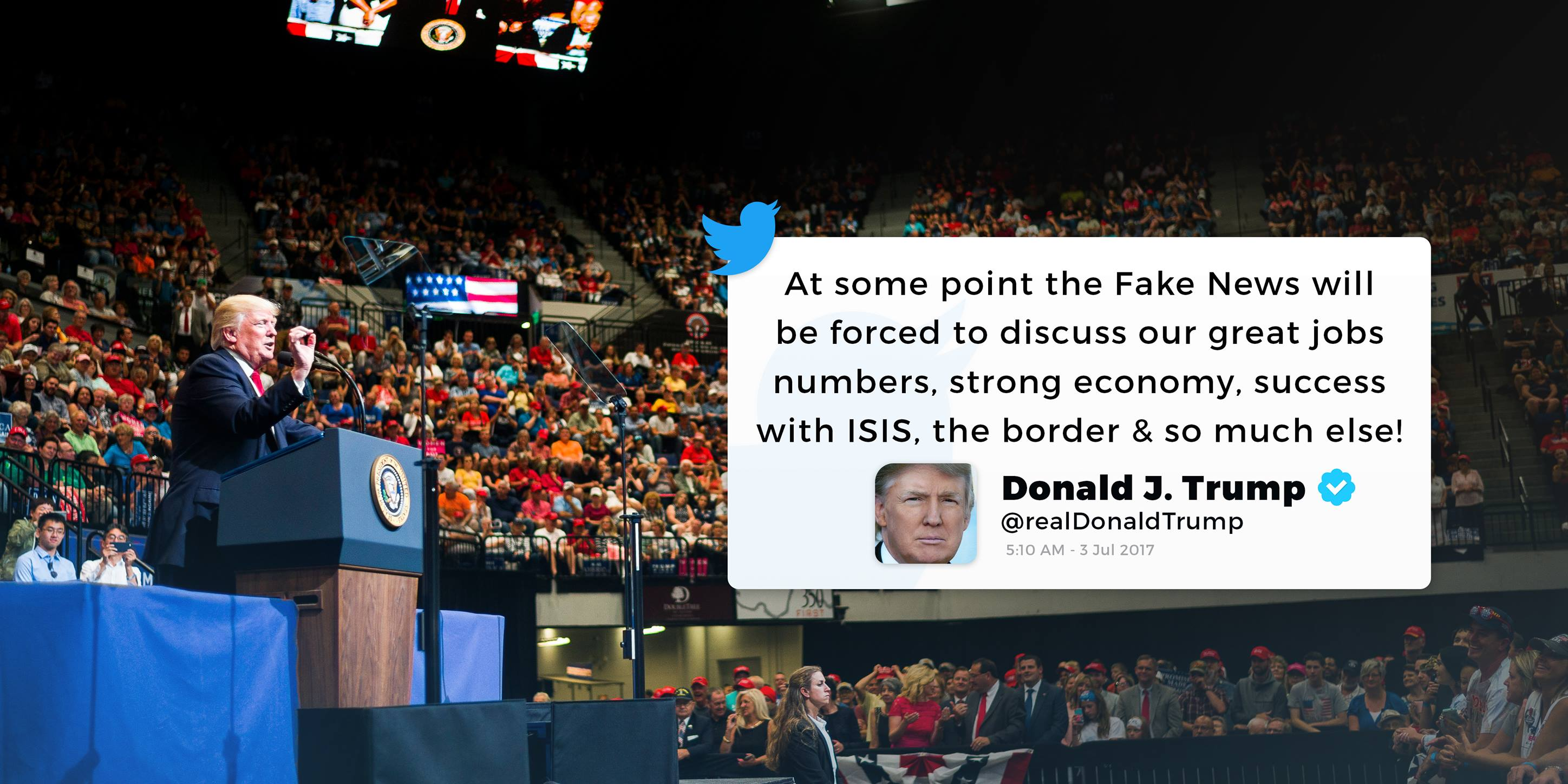 Donald Trump Facebook/Twitter post